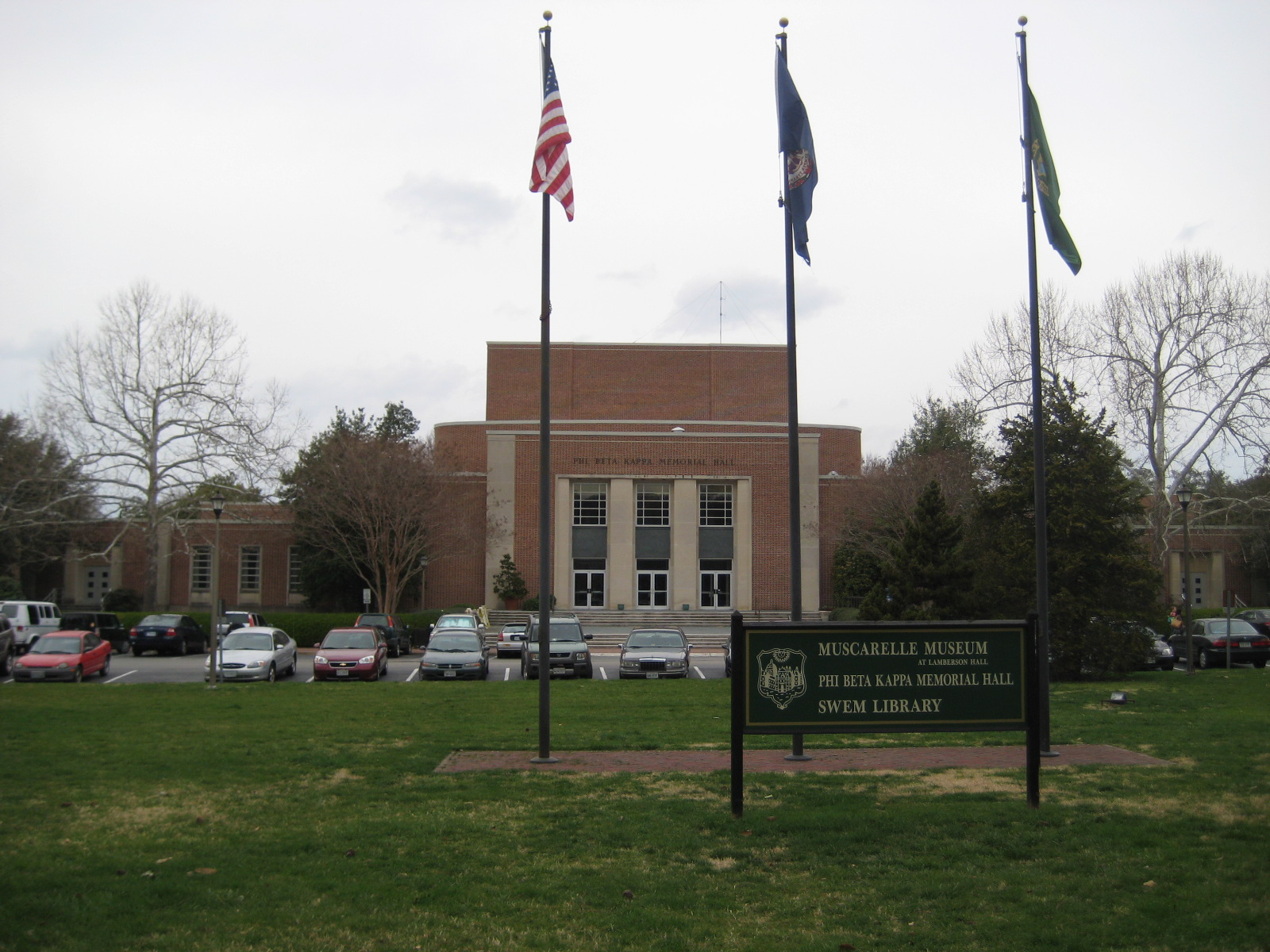 A farther shot of Phi Beta Kappa Memorial Hall at The College of William & Mary.